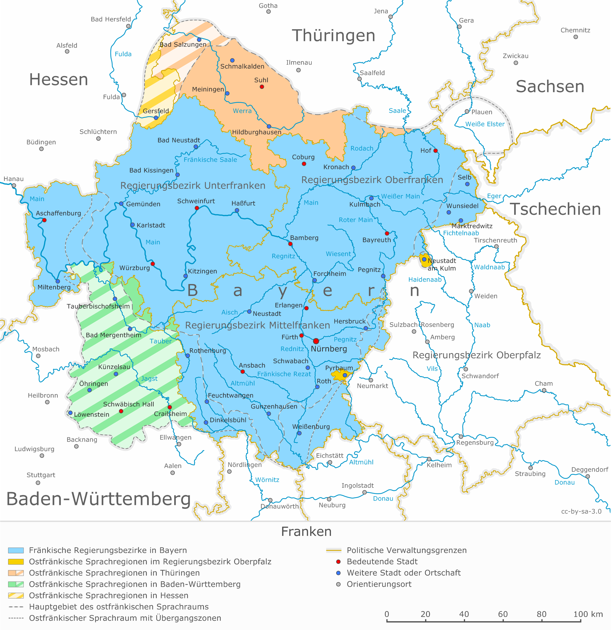 Franconia